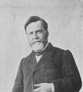 Anonymous photograph from the collection of Eugène Louis Carpezat